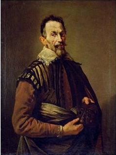 The identity of the subject of this portrait is uncertain. Further information: :Category:Portrait of an Actor - Domenico Fetti